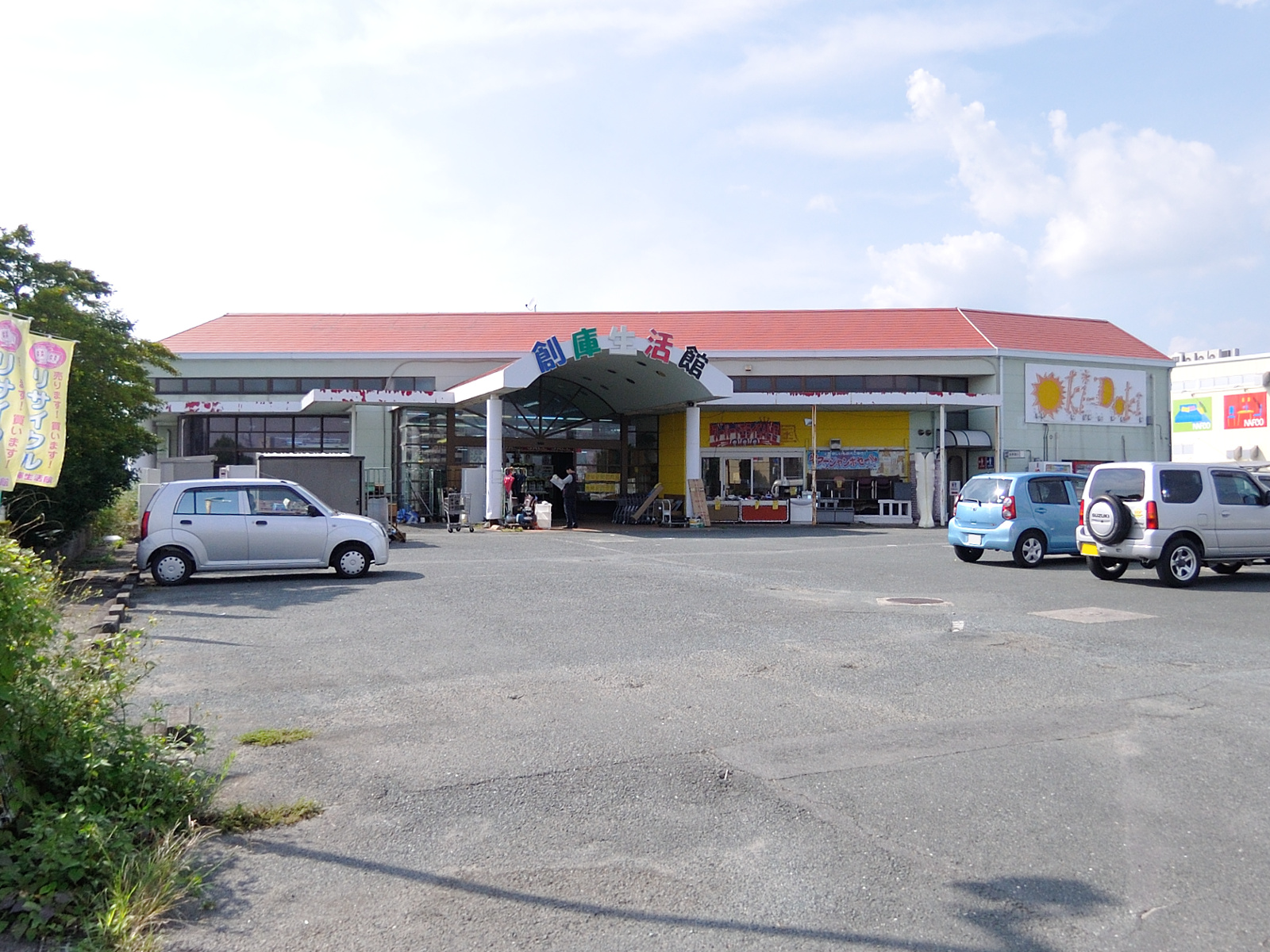 Photograph of Soko Seikatsukan Hamamatsu Honten and Seikatsu Soko Company Headquarters exterior. address 1188 Nakagori-cho, Higashi-ku, Hamamatsu City, Shizuoka Prefecture, Japan photo date and time 14:20 September 12, 2014